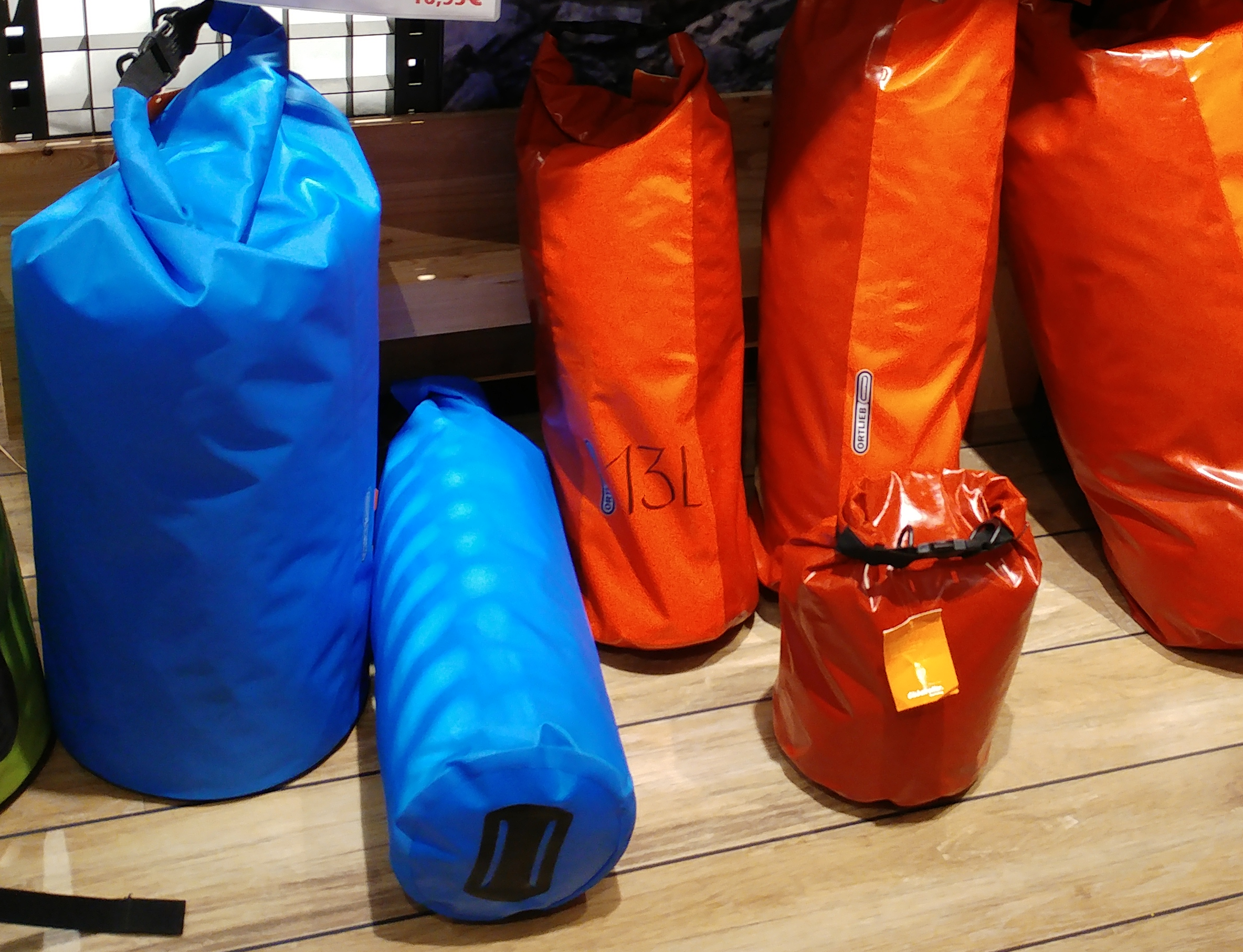 Drybag